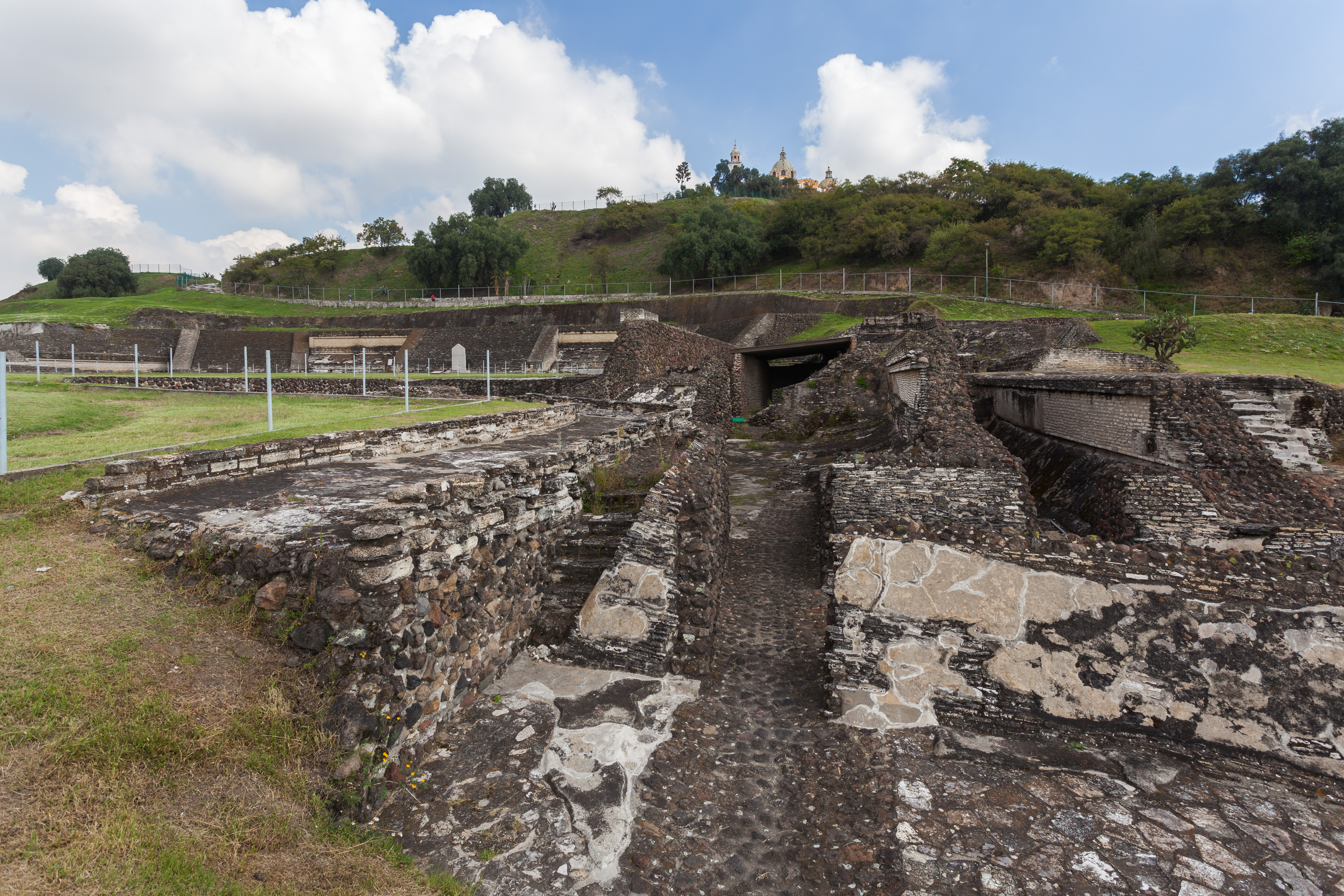 Great Pyramid of Cholula, Puebla, Mexico